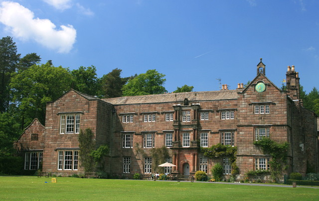 Browsholme Hall, near to Bashall Eaves, Lancashire, Great Britain. This glorious 16th-century house has been the home of the Parker family ever since it was first built in 1507. It remains a private home, though is occasionally open to the public. The current owner, Robert Parker, inherited the property in the 1980s from a relative (his first cousin four times removed), whose will made it clear that the house should go to someone bearing the surname Parker, so disinheriting his sisters and their offspring.